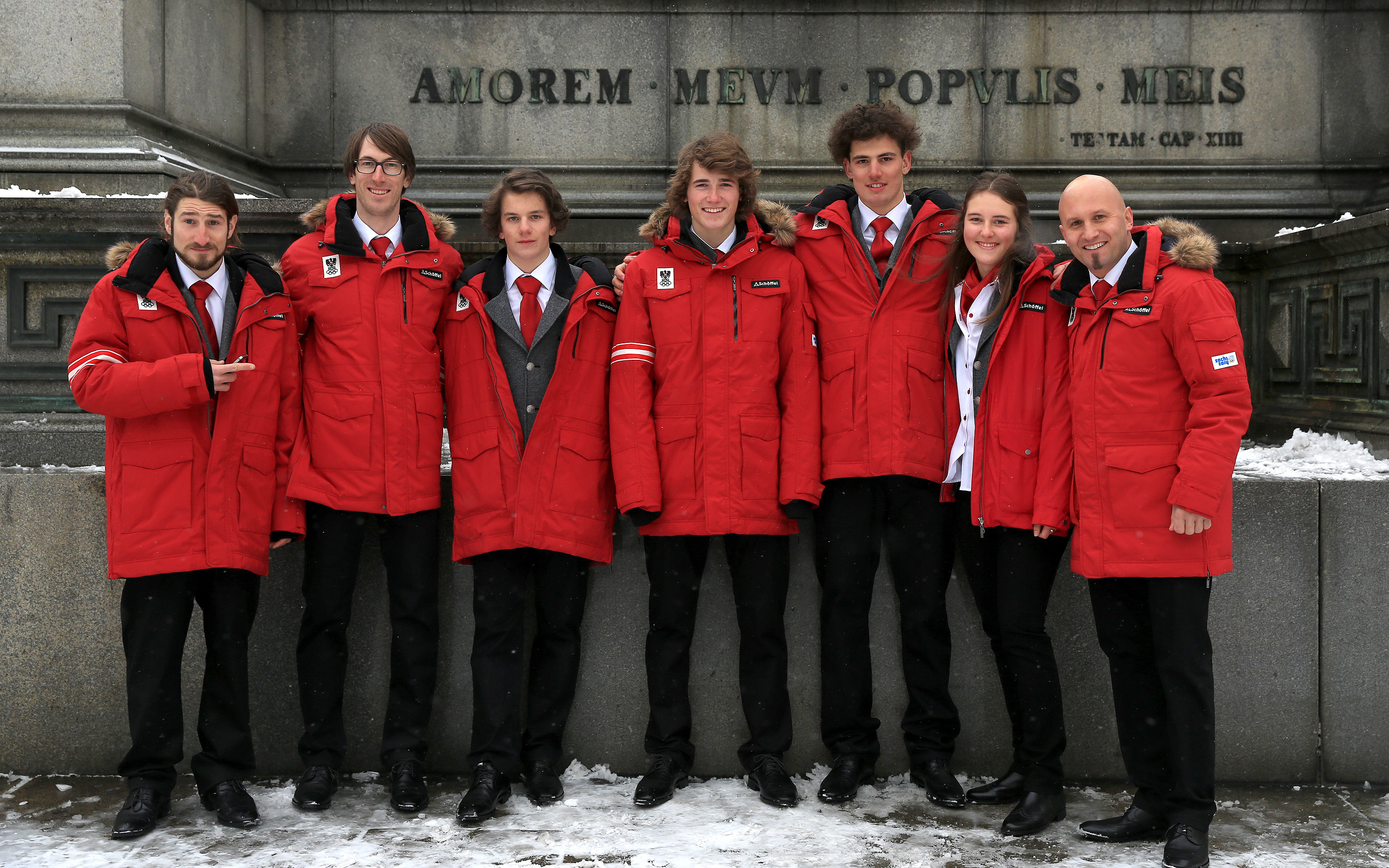 Athletes of the Austrian team for the 2014 Winter Olympics - Free Style Skiing (halfpipe, slopestyle): Philomena Bair, Andreas Gohl, Marco Ladner, Luca Tribondeau and support team; group picture taken at Hofburg Palace in Vienna, Austria.